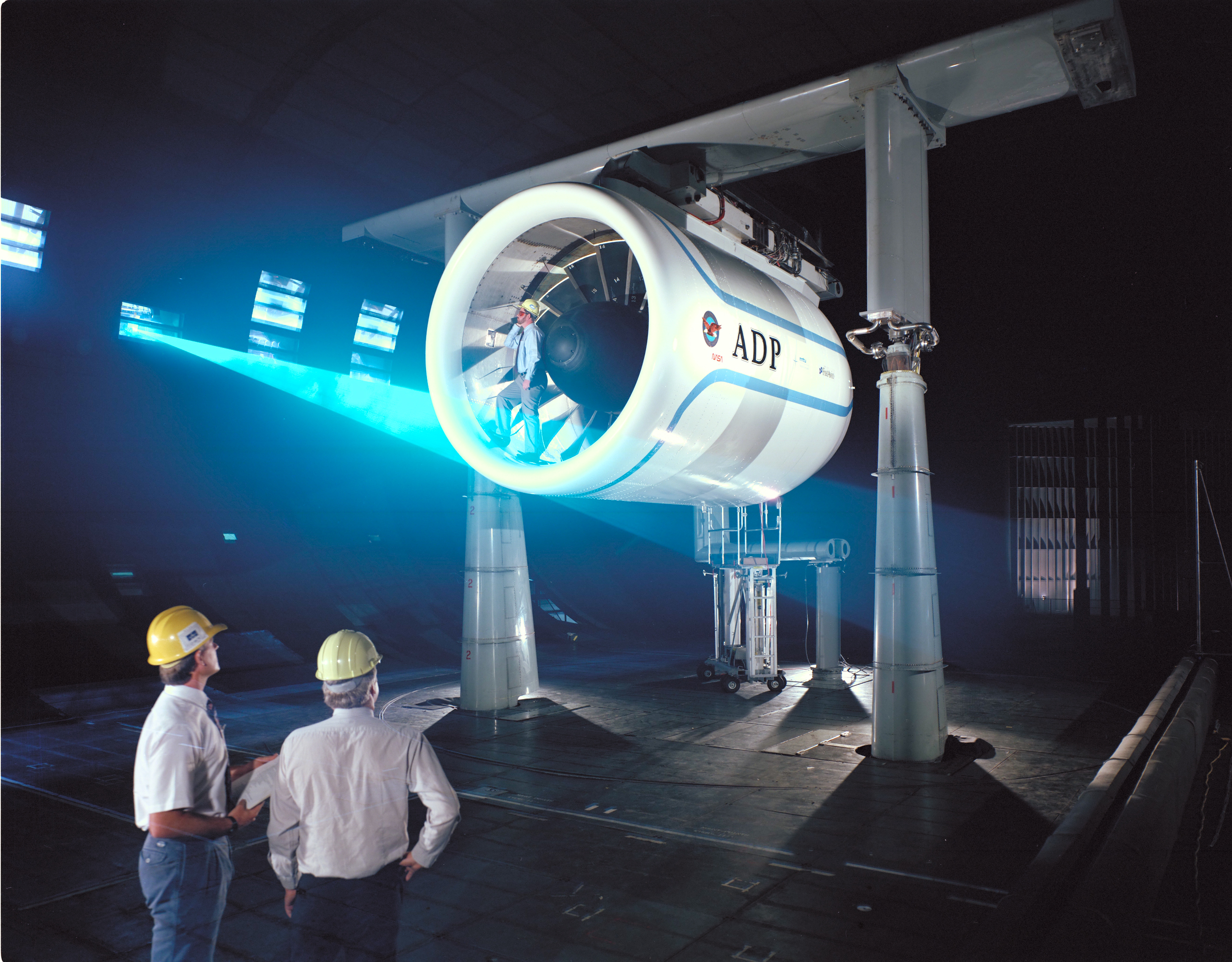 Pratt &​ Whitney Advanced Ducted Propulsor (ADP) engine test in 40x80ft wind tunnel: Engineers Peter Zell (left) and Dr Clifton Horne (right) are shown preparing a laser light sheet for a flow visualization test. Shown standing in the nacelle of the ADP is John Girvin, senior test engineer for Pratt &​ Whitney.